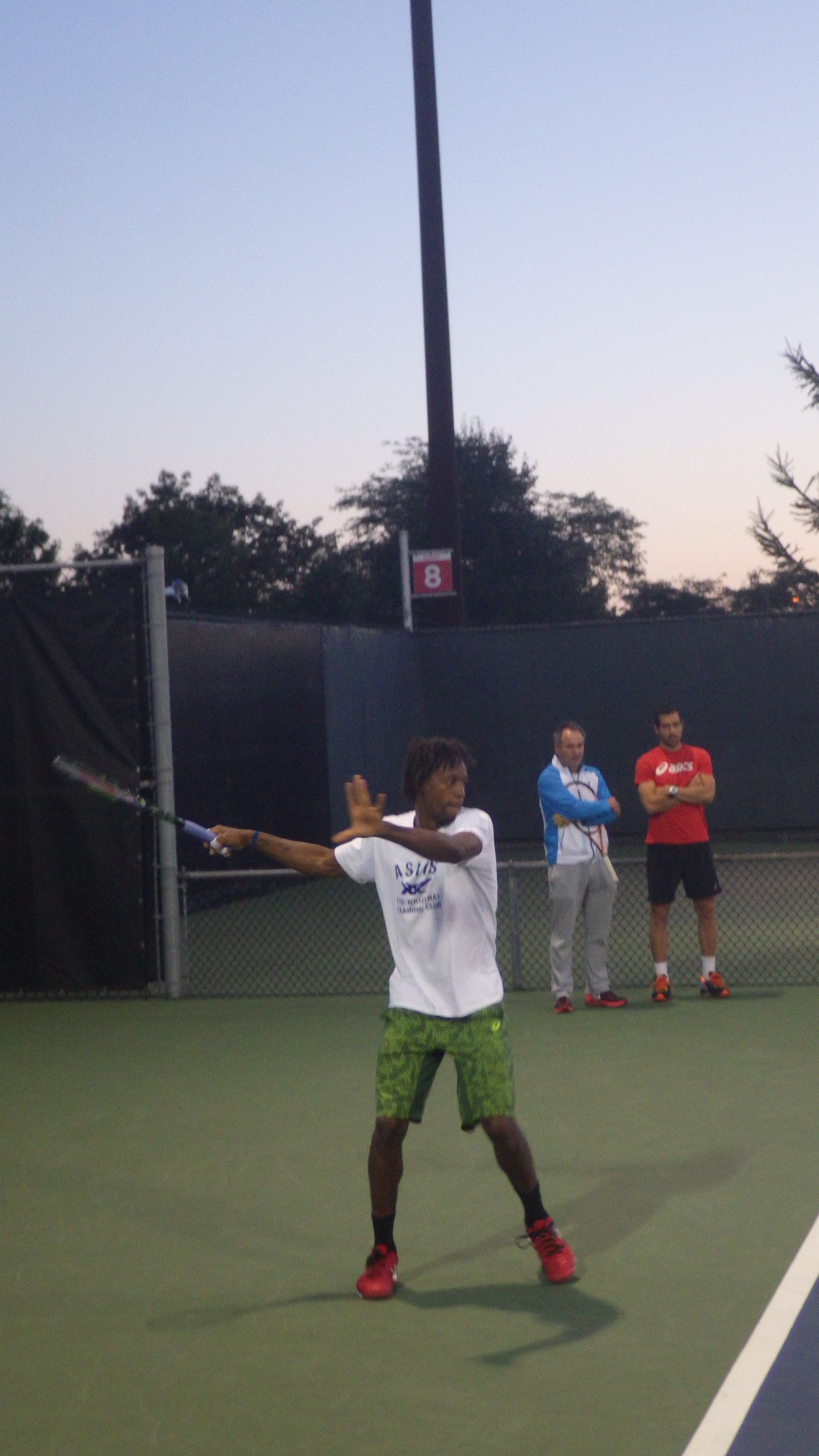 Gaël Monfils training during the 2015 Canadian Masters in Montreal